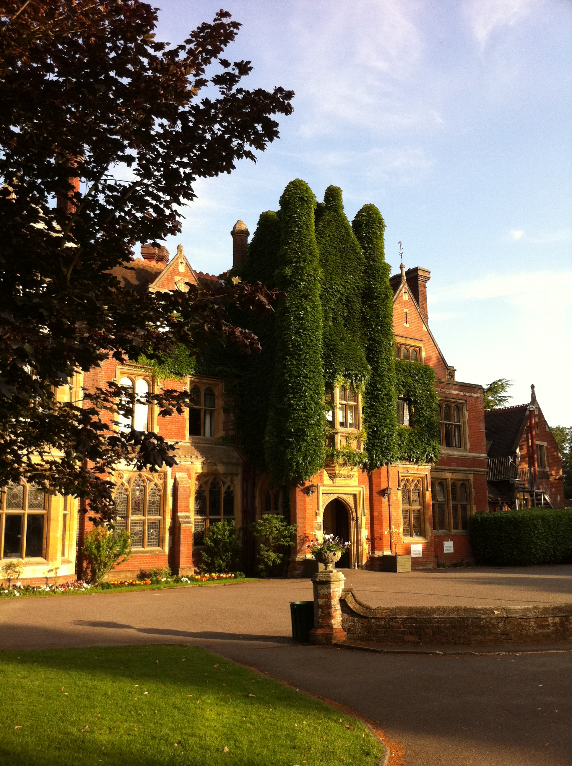 Dalewood House, the main building of Box Hill School, from the front.